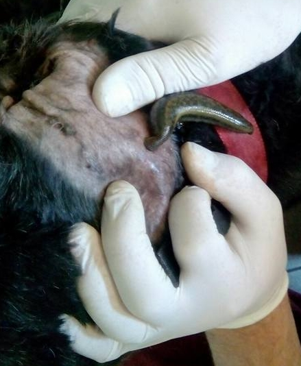 Treatment of an aural hematoma in a dog by medicinal leeches